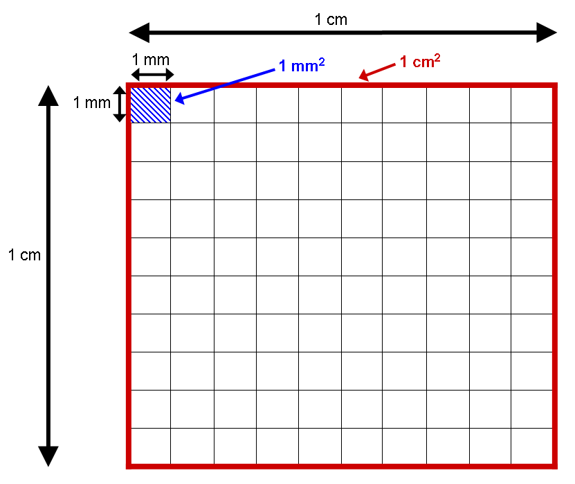 Diagram of a 10x10 square grid. The small squares each represent one square millimeter (1 mm2); the entire grid represents one square centimeter (1 cm2). The purpose is to show that even though there are 10 mm in 1 cm, there are 100 mm2 in 1 cm2. More generally, it shows that the conversion factor between units of area is the square of the conversion factor between corresponding units of length. Needs larger text and conversion to .svg format.